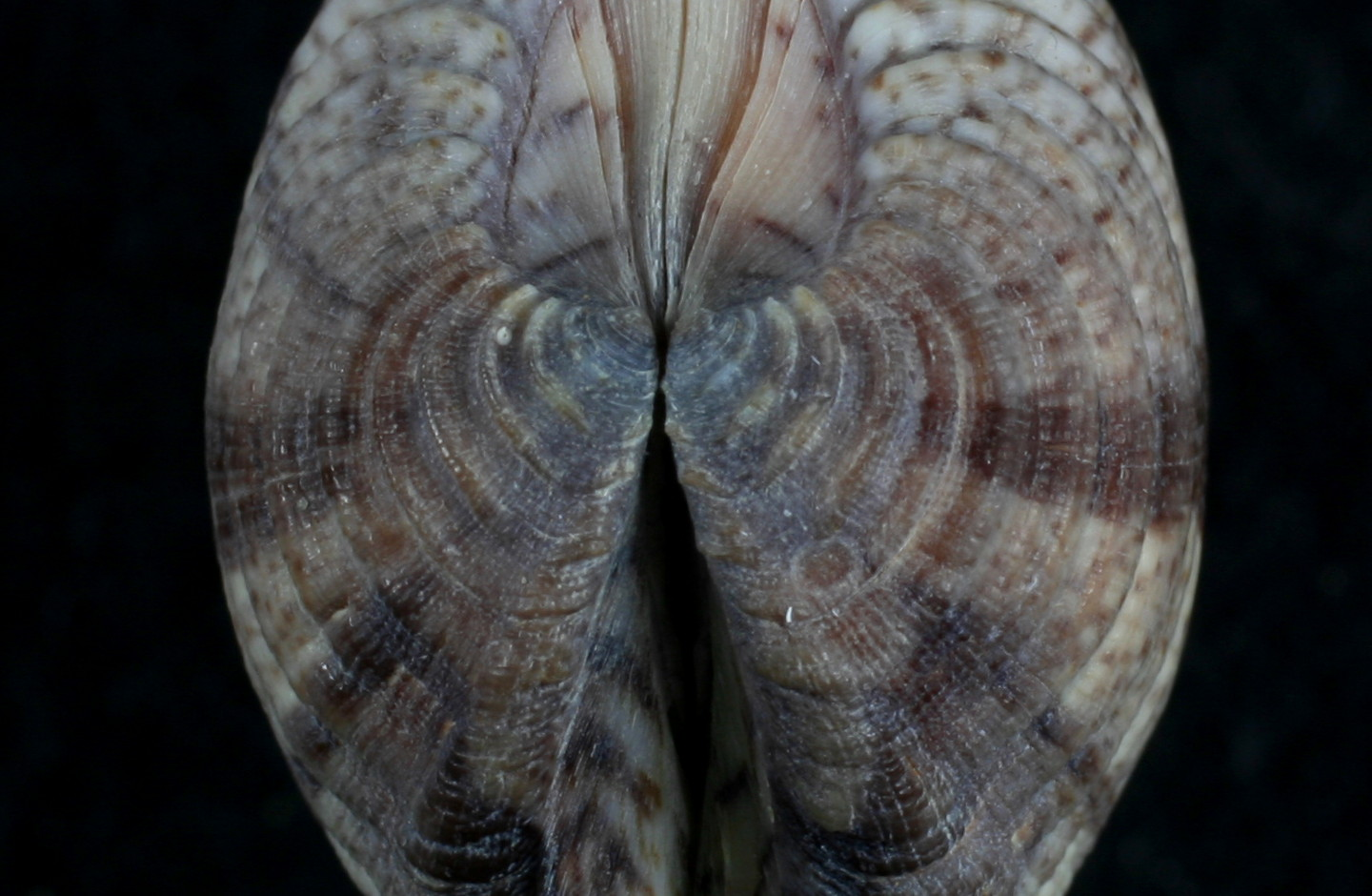 Veneridae: Chione subrugosa umbo view of prodissoconch